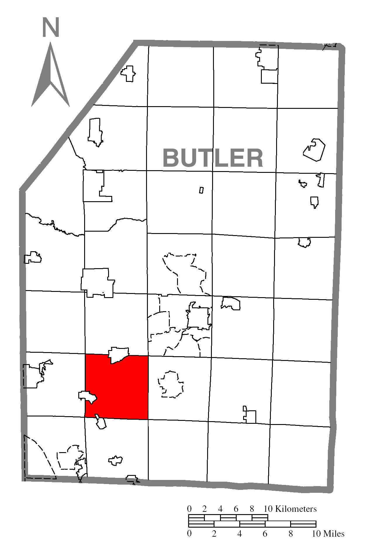 A map of Butler County showing Forward Township, Pennsylvania (alternate) highlighted on the map.